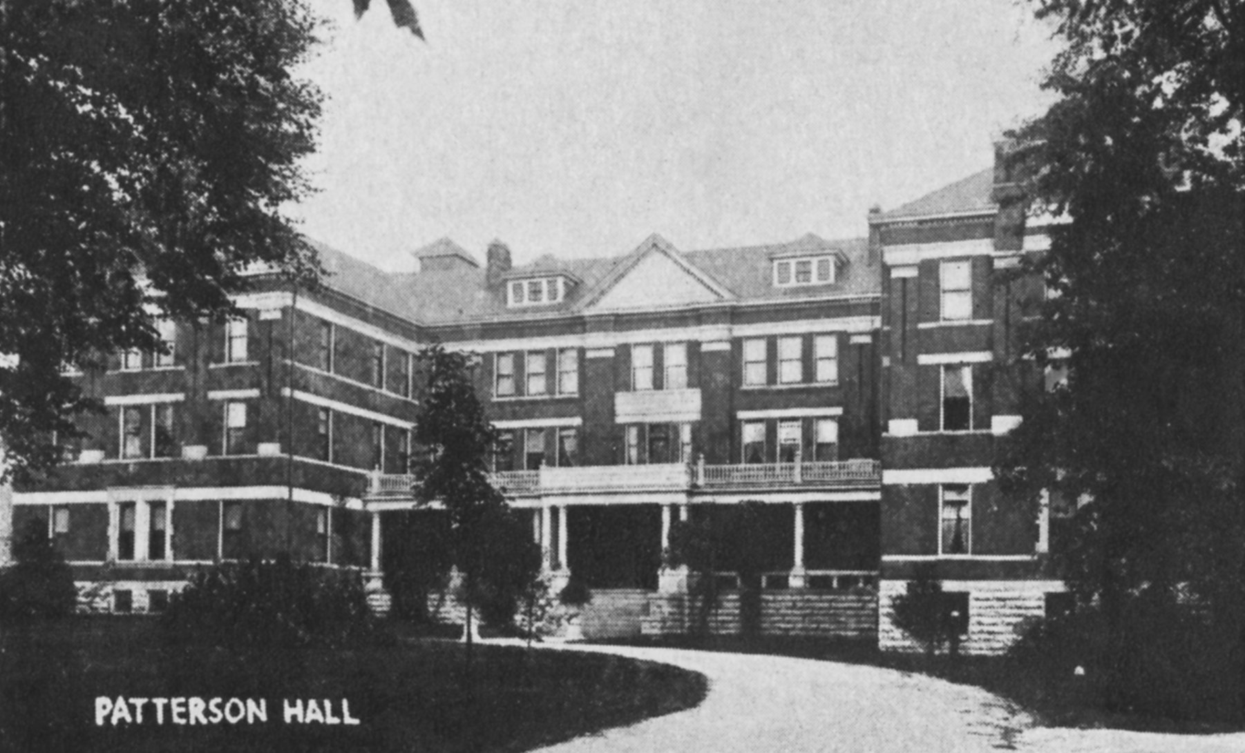 Patterson Hall on the Agricultural and Mechanical College of Kentucky (now University of Kentucky) campus in 1905